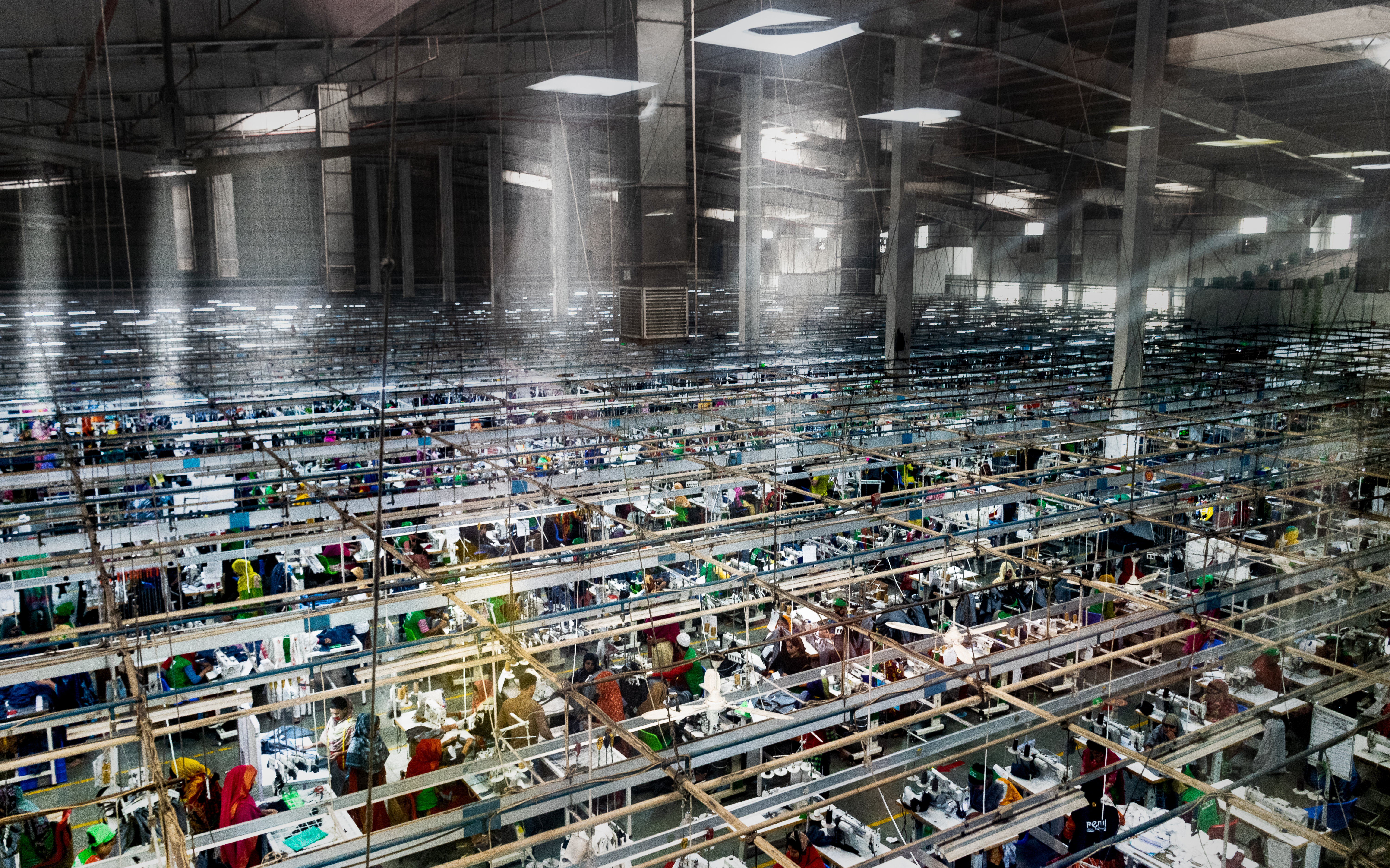 The highest LEED Certified Green Garment factories in the world.